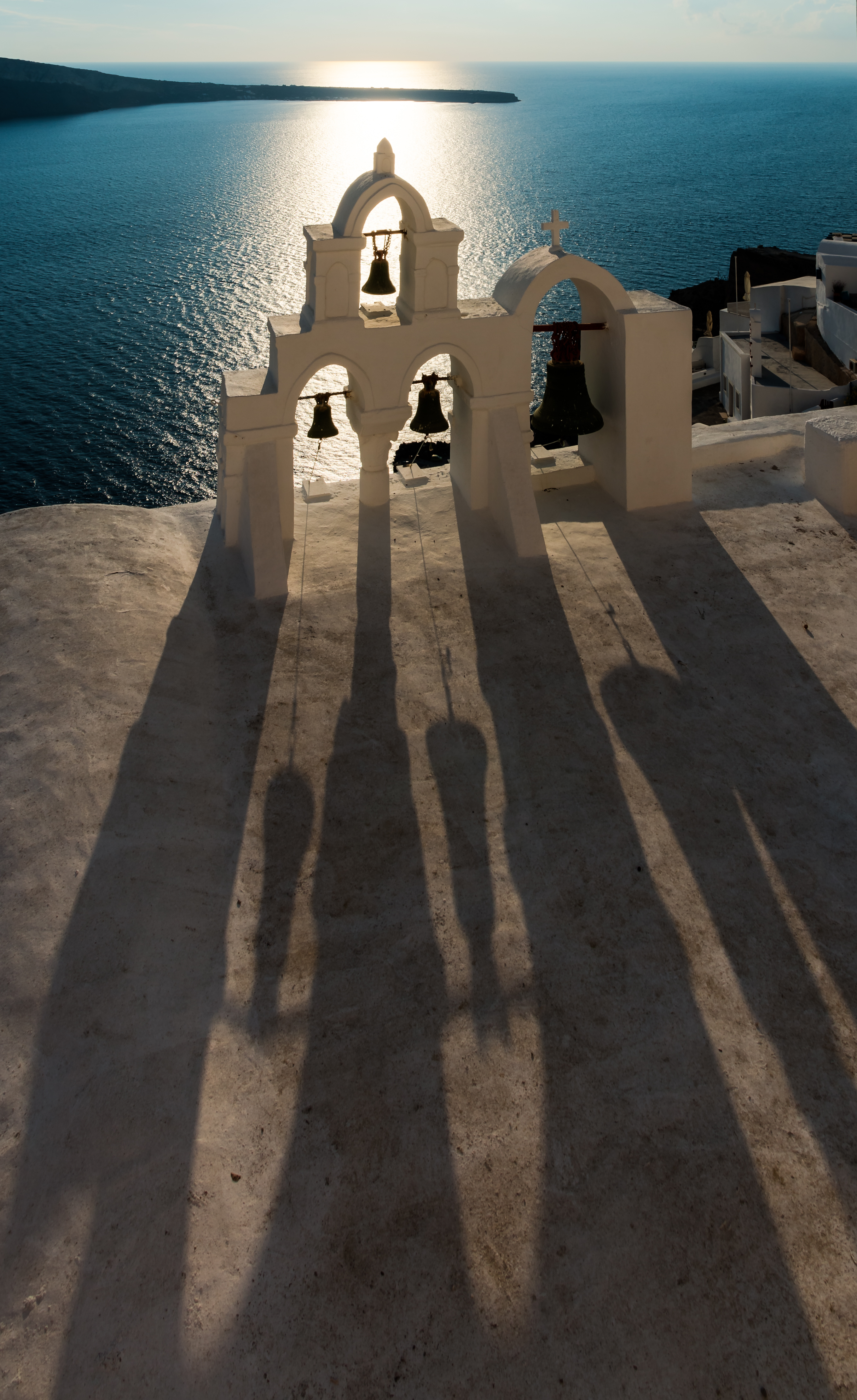 Four bells in Ia, Santorini, Greece